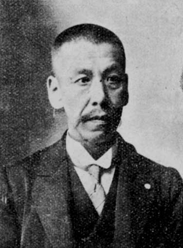 Mr. Ishitarō Yokochi, director of the Yamaguchi Higher Commercial School.